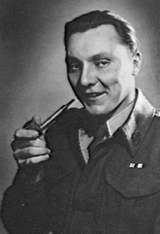 Photograph of Roland Griffiths-Marsh, in the collection of the Australian War Memorial. Photograph caption: 1945. STUDIO PORTRAIT OF VX16310 CORPORAL ROLAND GRIFFITHS-MARSH AGED TWENTY-TWO YEARS SHORTLY BEFORE HE PARACHUTED BEHIND ENEMY LINES IN BORNEO IN 1945-05. IT WAS FOR SERVICE IN THESE OPERATIONS THAT HE WAS AWARDED THE MILITARY MEDAL.